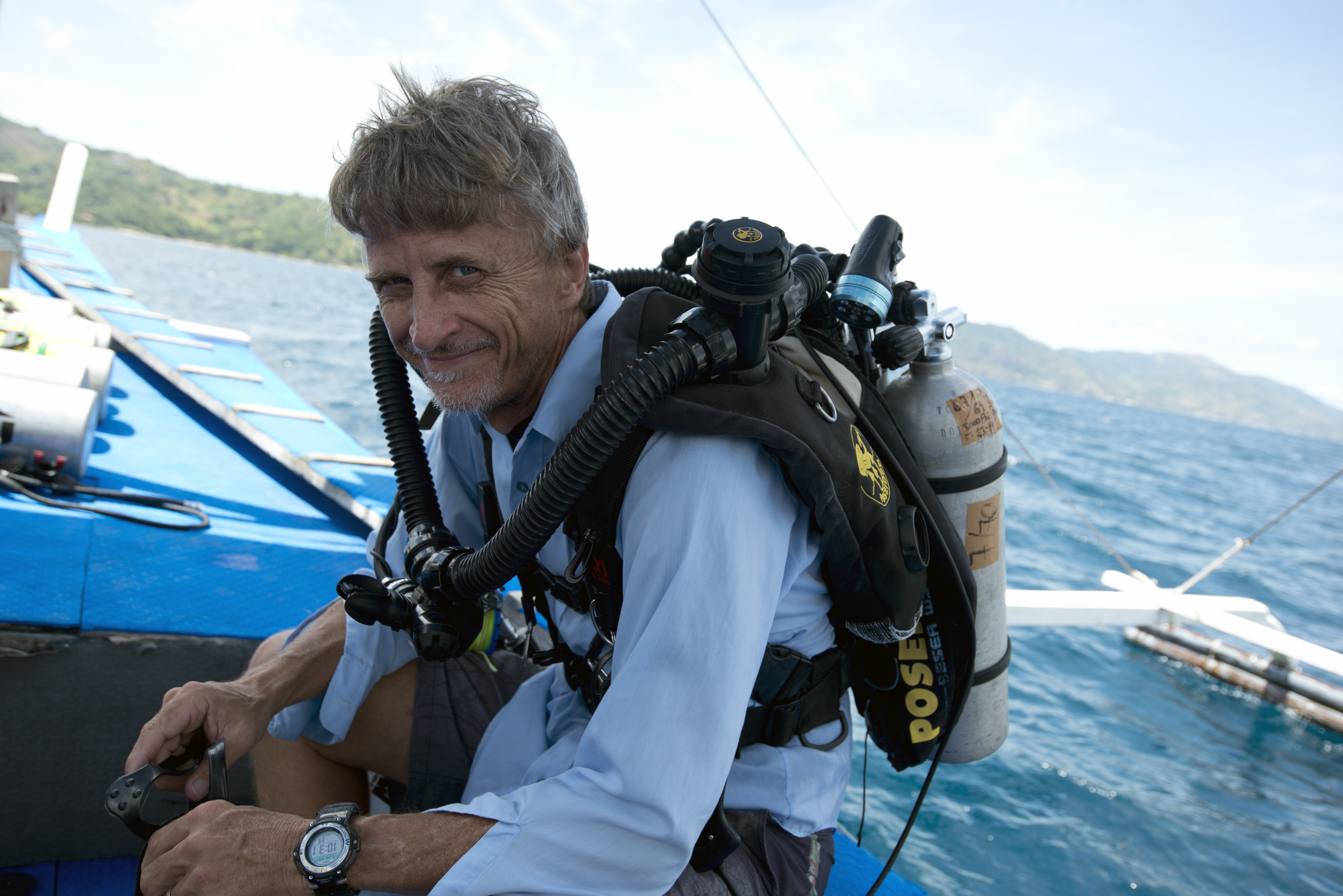 Richard L. Pyle preparing to conduct a dive to 150 m in Anilao, Philippines, using a Poseidon SE7EN closed-circuit rebreather. The photo was taken during a joint expedition with Bishop Museum and the California Academy of Sciences to survey Mesophotic Coral Ecosystems.